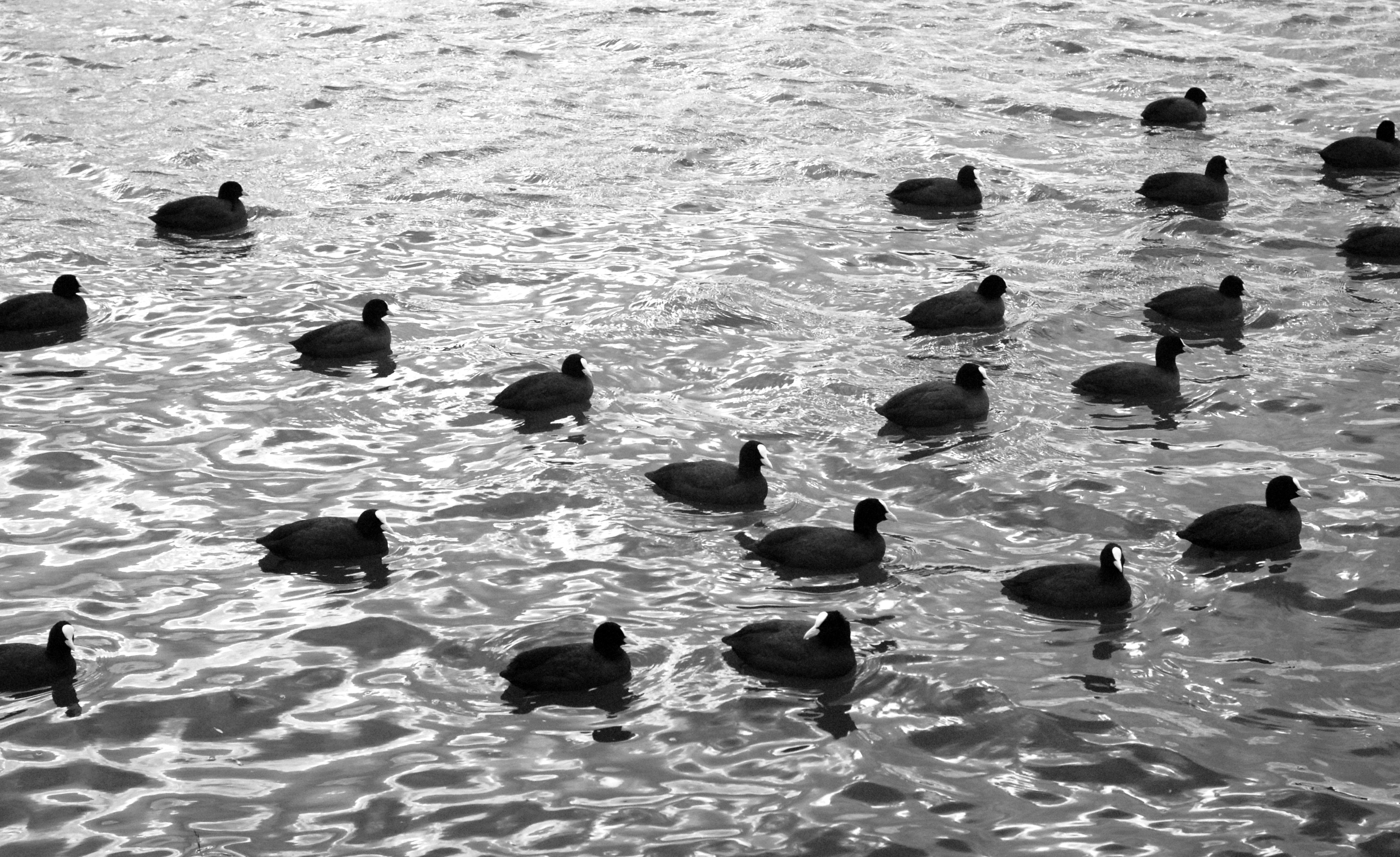 Eurasian coots (Fulica atra) in Krakow